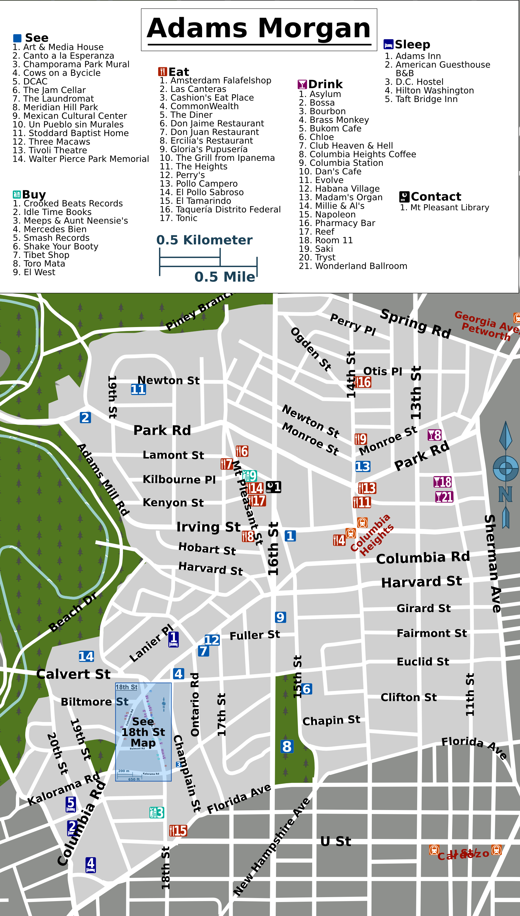 Adams Morgan district map, Washington, D.C.